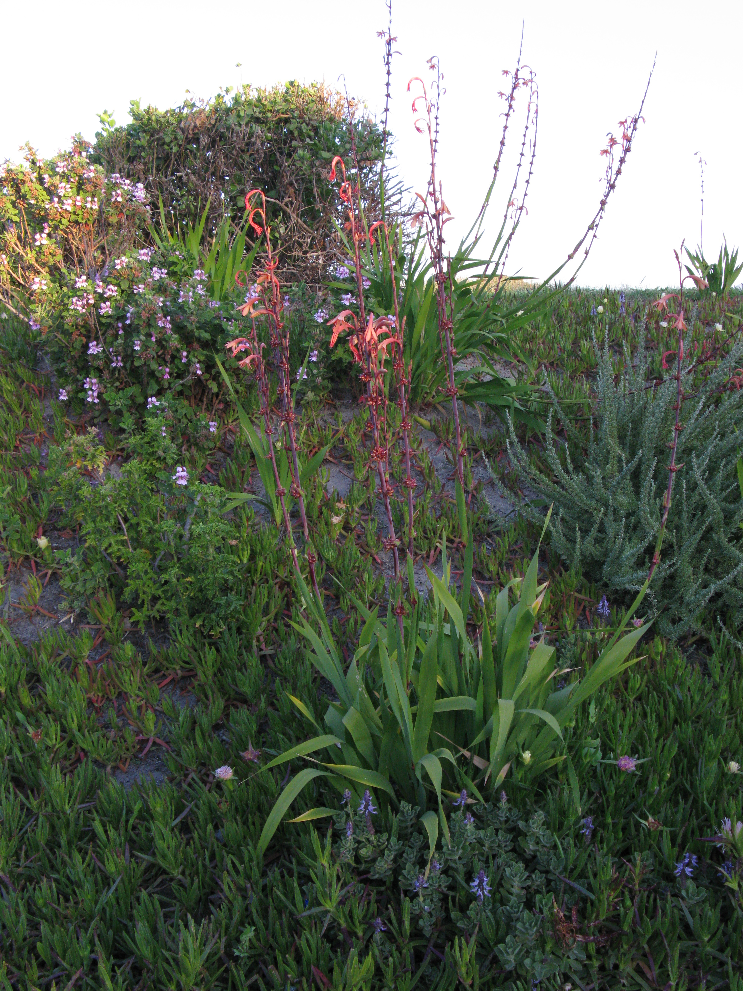 Watsonia meriana is unusual in growing cormlets (usually incorrectly referred to as bulbils) in the axils of bracts at the nodes of the inflorescence, together with fruit